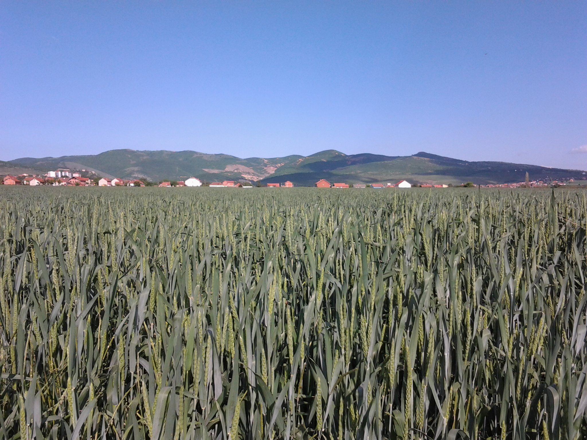 Fotografuar në Graçanicë